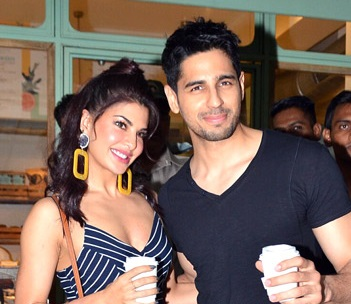 Jacqueline Fernandez and Sidharth Malhotra snapped at The Kitchen Garden